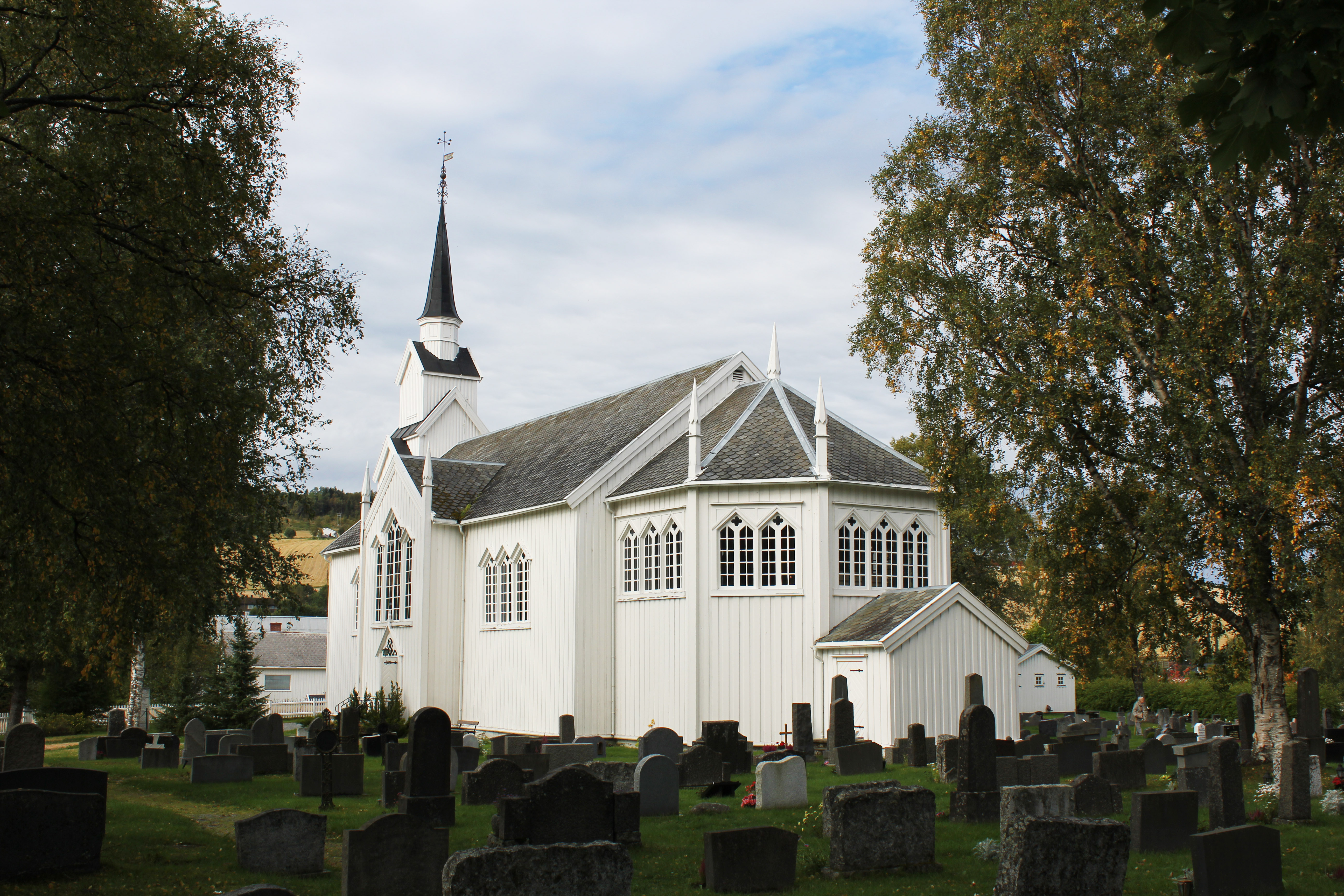 Børsa church, Sør-Trøndelag, Norway. Erected 1857. Architect: C.H. Grosch